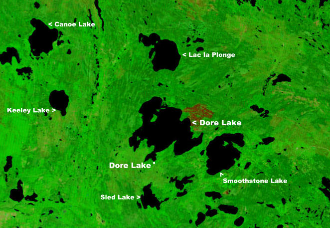 Portion of NASA map showing Dore Lake in Saskatchewan (Captions have been added by Kayoty)